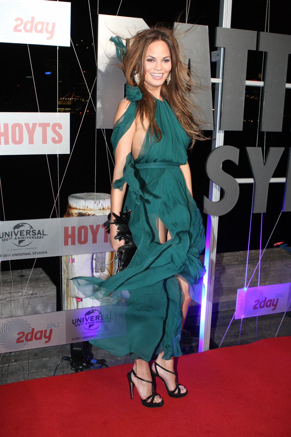 Chrissy Teigen at the Australian Premiere of BATTLESHIP at Sydney Luna Park, April 2012